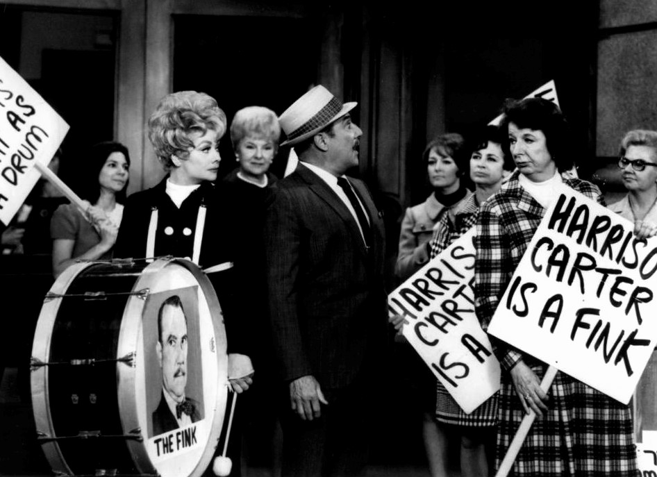 Publicity photo from the television program Here's Lucy. In this episode "Lucy Goes on Strike", Lucy organizes a strike against her boss, Harrison Carter (Gale Gordon). On right is actress Mary Wickes.